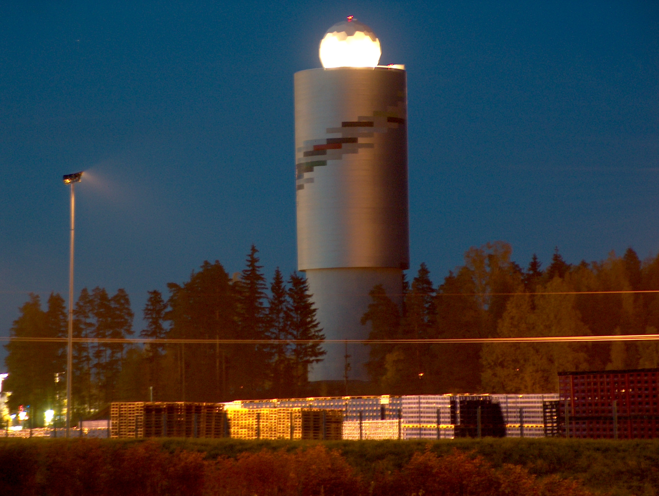 The New Water Tower and weather radar by night - Kerava, Finland